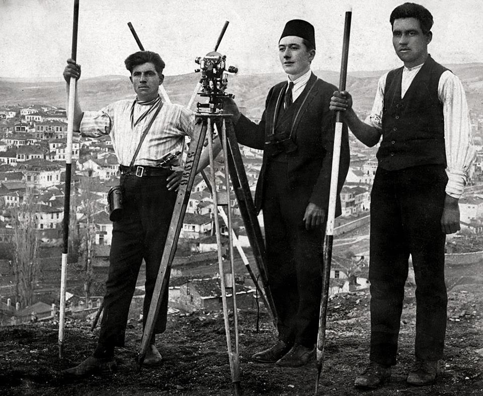 Geodesists from Štip, Macedonia (1910-1920)